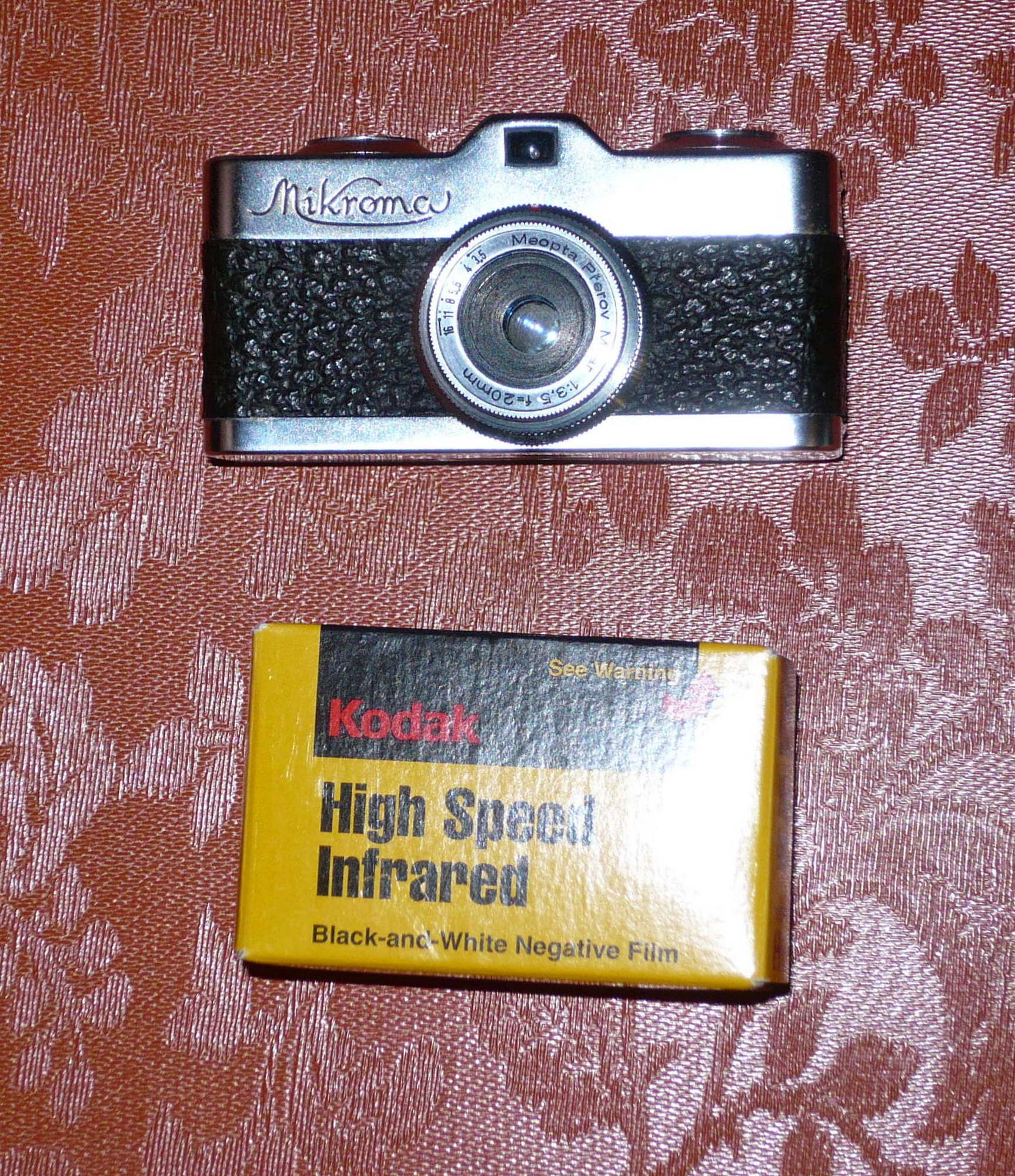 Mikroma 16mm subminiature camera 中文（中国大陆）: 米克洛玛 16毫米 微型相机